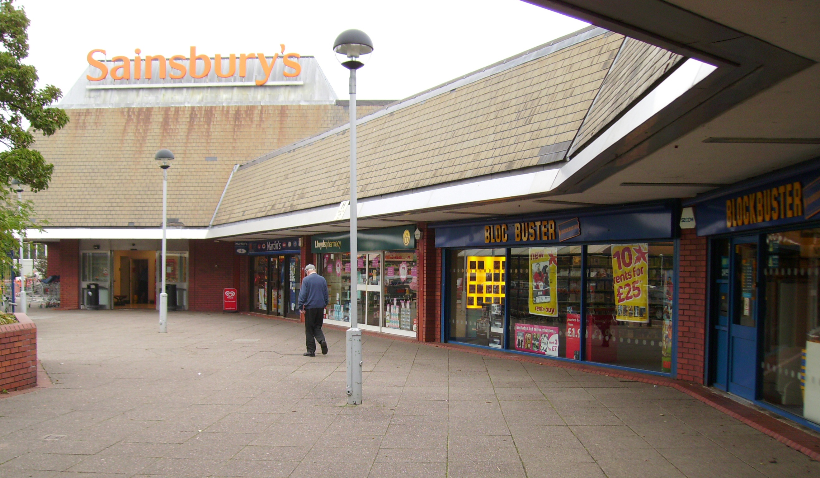 The now demolished Thornhill Shopping Centre, Thornhill, Cardiff, Wales